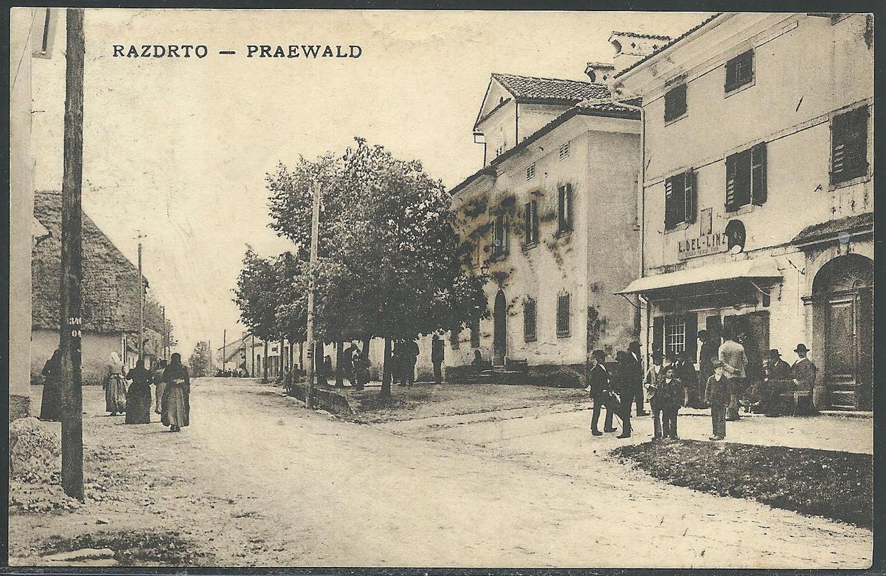 Postcard of Razdrto.